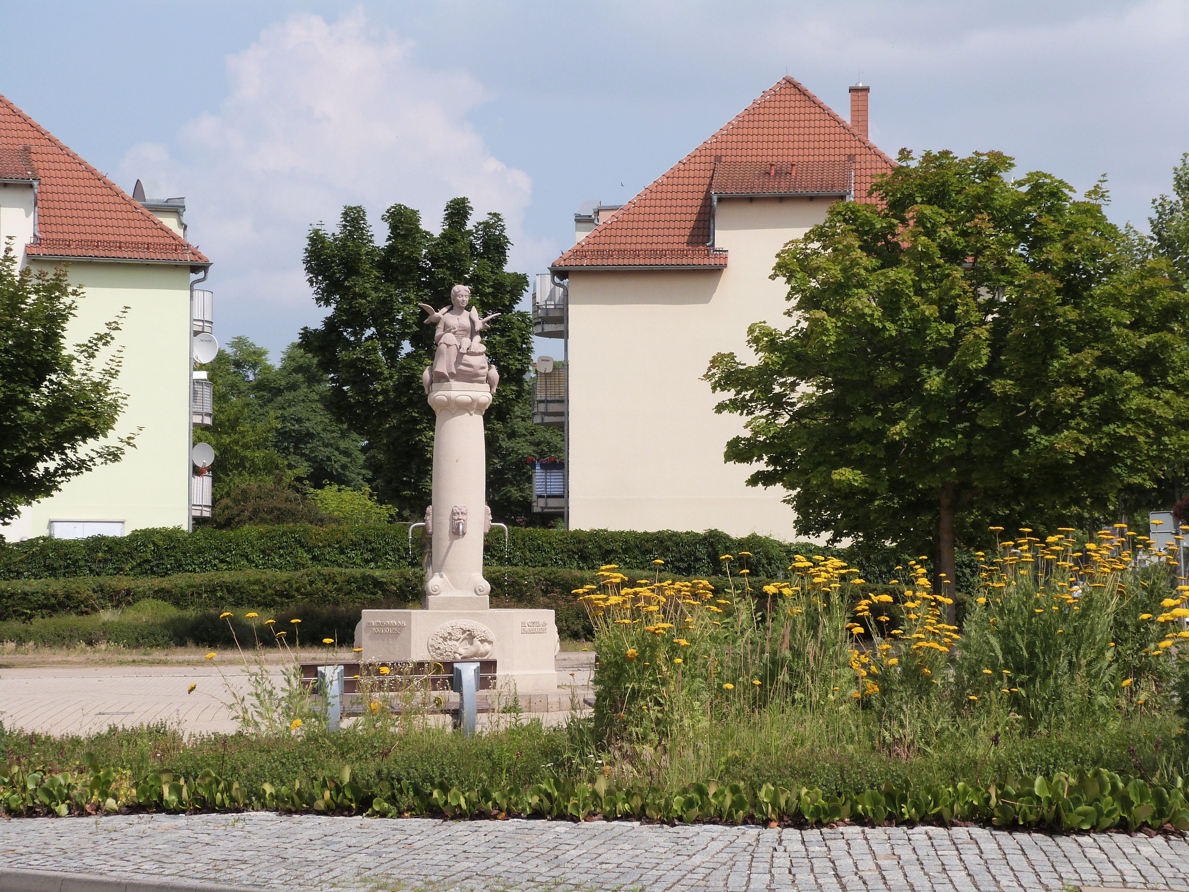 Fairy Tale Fountain in Weissenfels (district: Burgenlandkreis, Saxony-Anhalt)